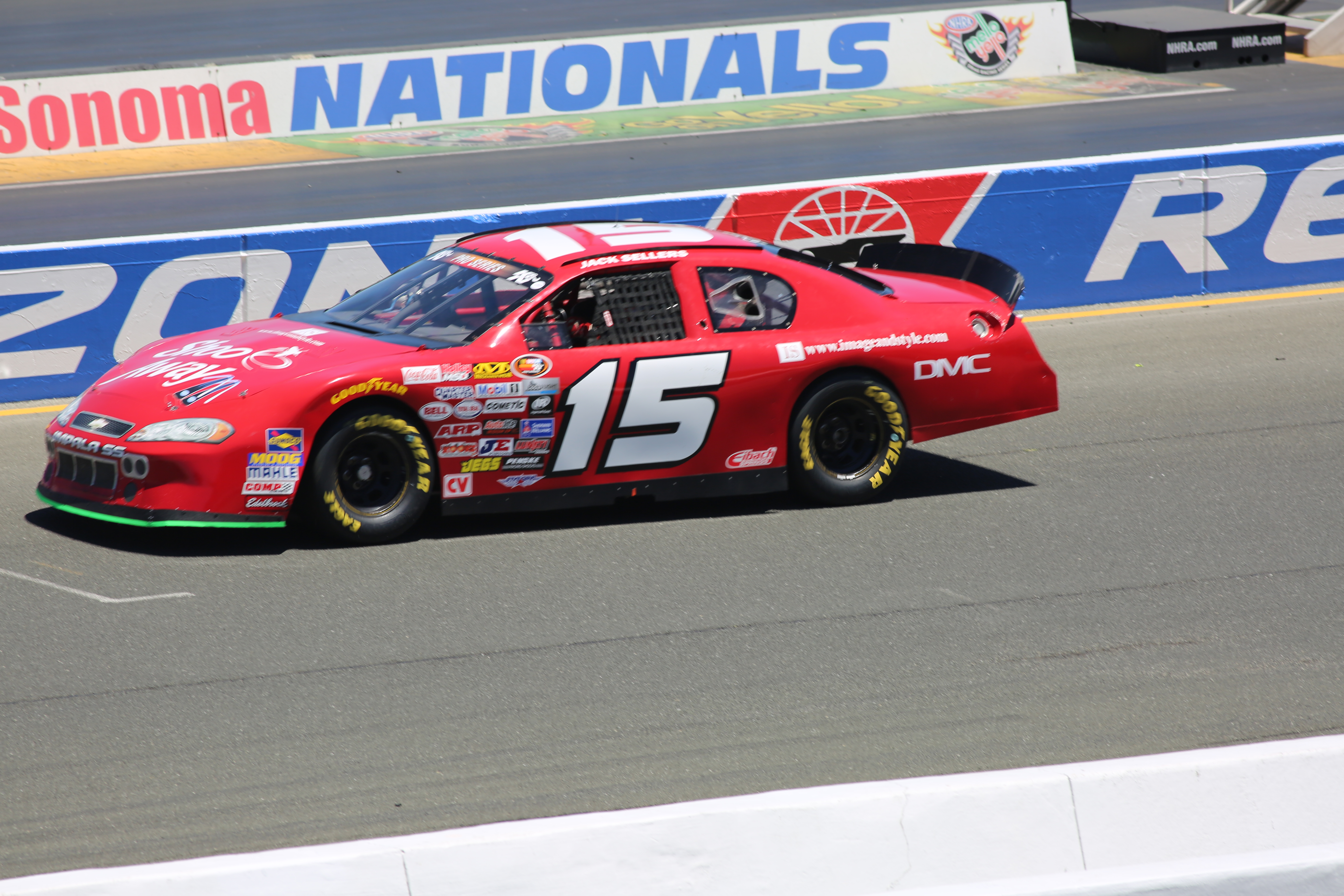 Jack Sellers' No. 15 Shoo Away Chevrolet at Sonoma Raceway in 2016